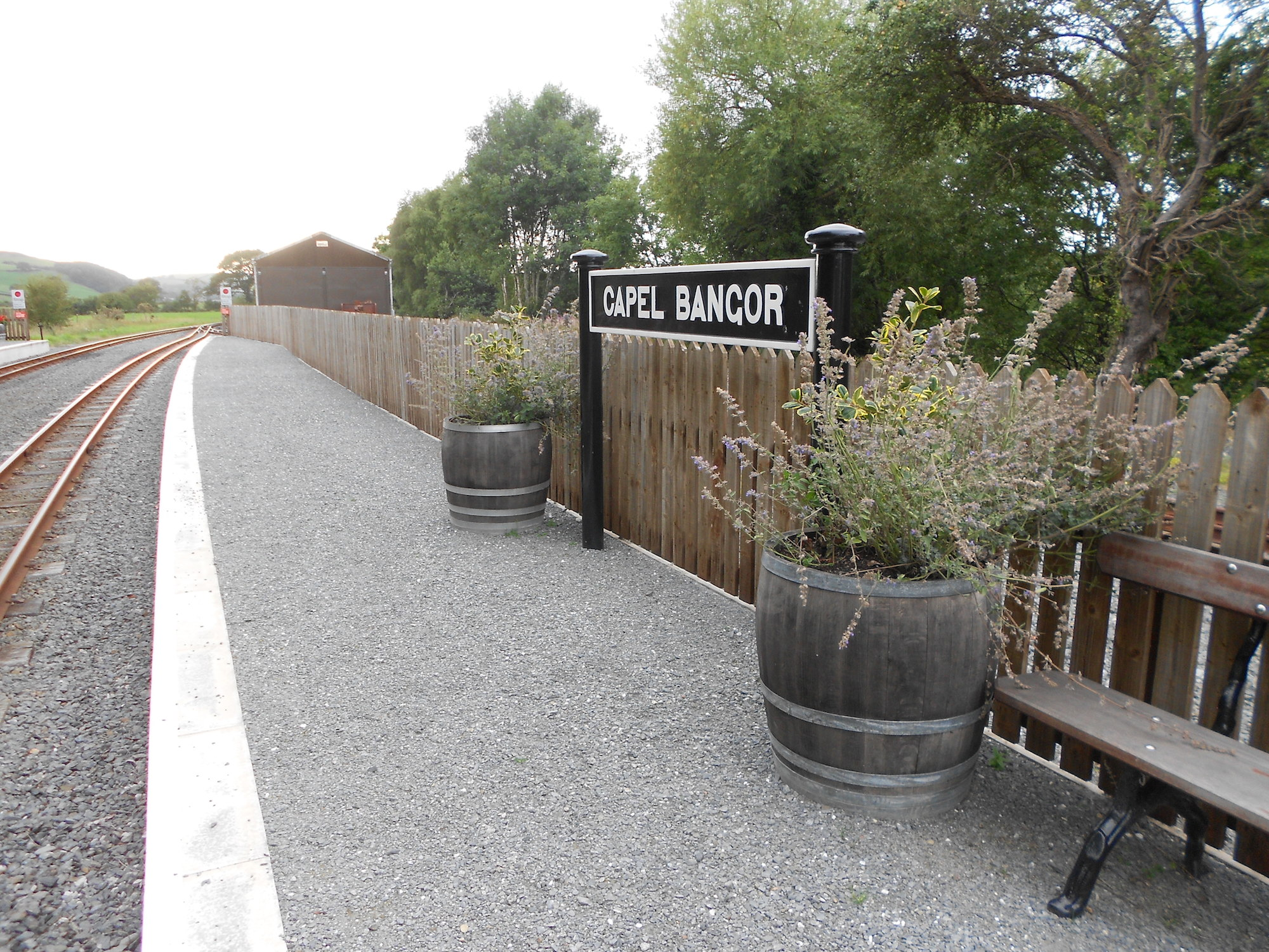 A view of the platforms and station nameboard at Capel Bangor railway station, Wales.